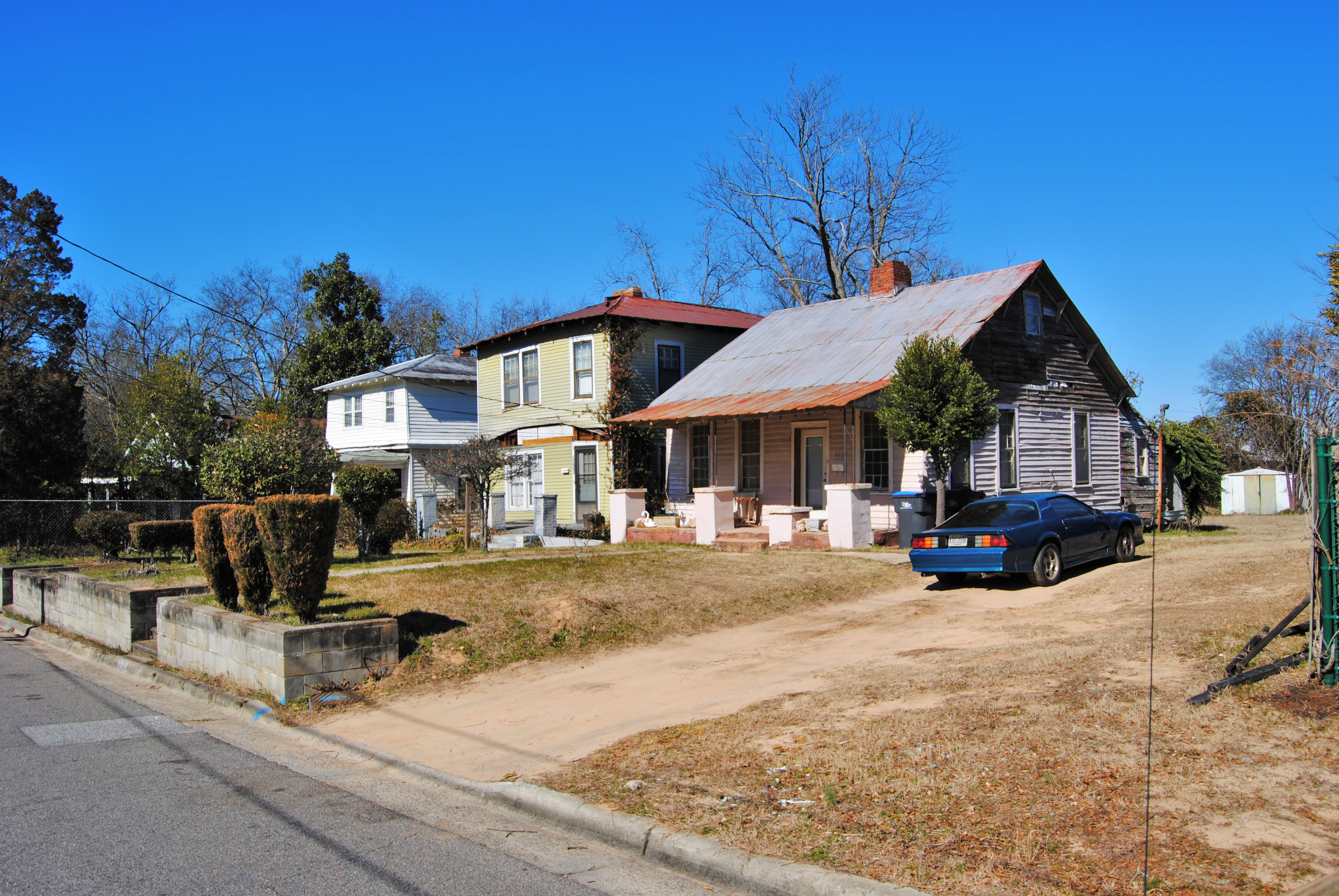 Homes located in the 2500 block of Mt. Auburn Avenue, Augusta, GA, photographer facing NW.